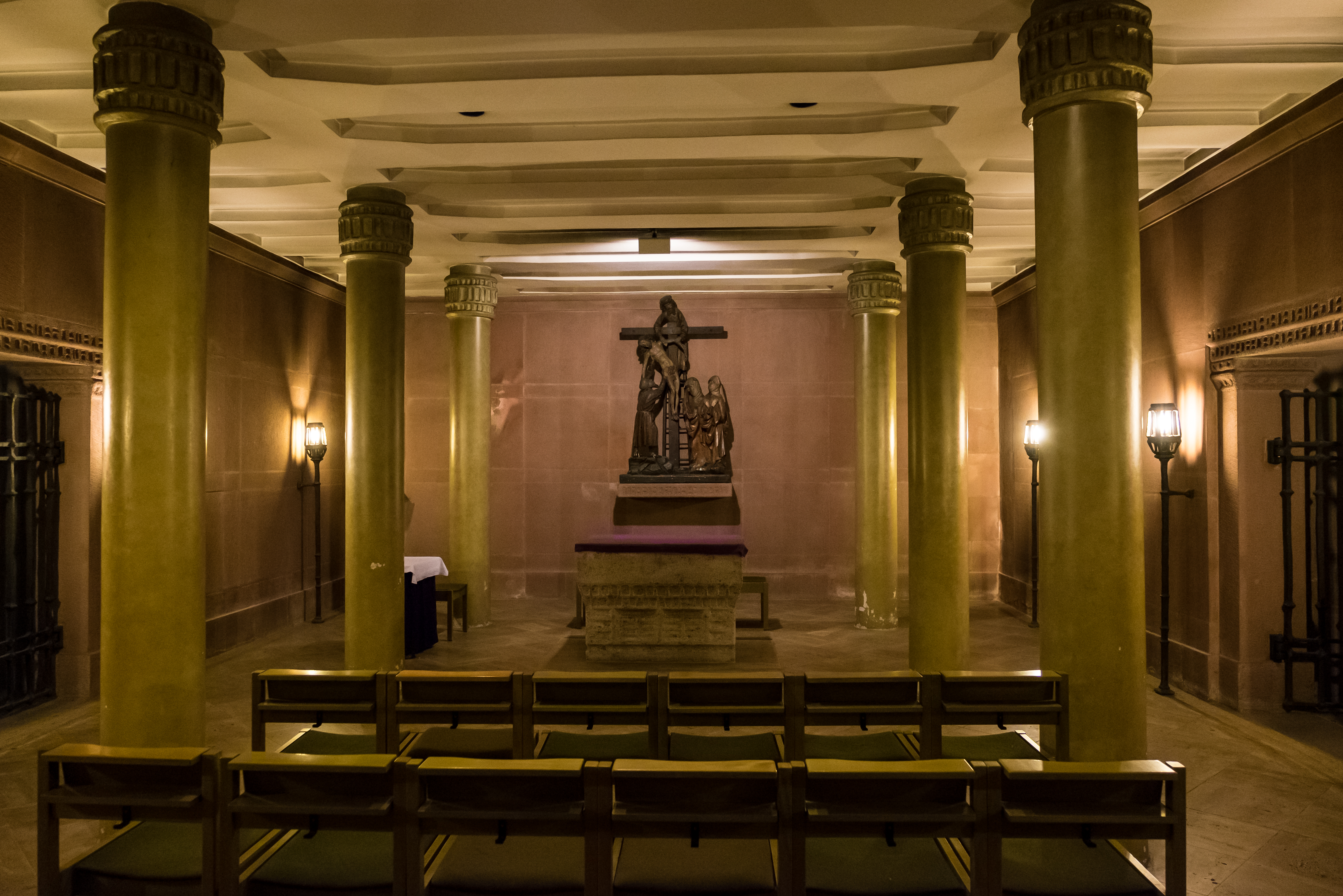 Western crypt of Mainz Cathedral